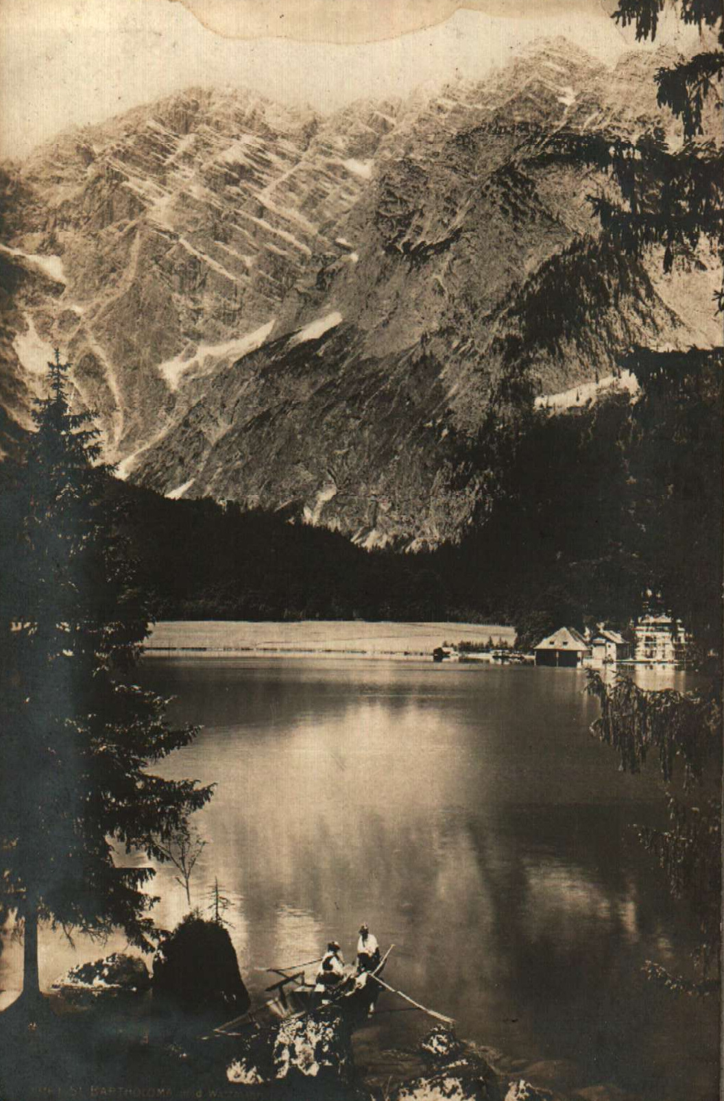 Postcard